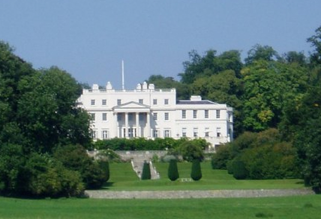 Linton Park. 18th Century landscaped park